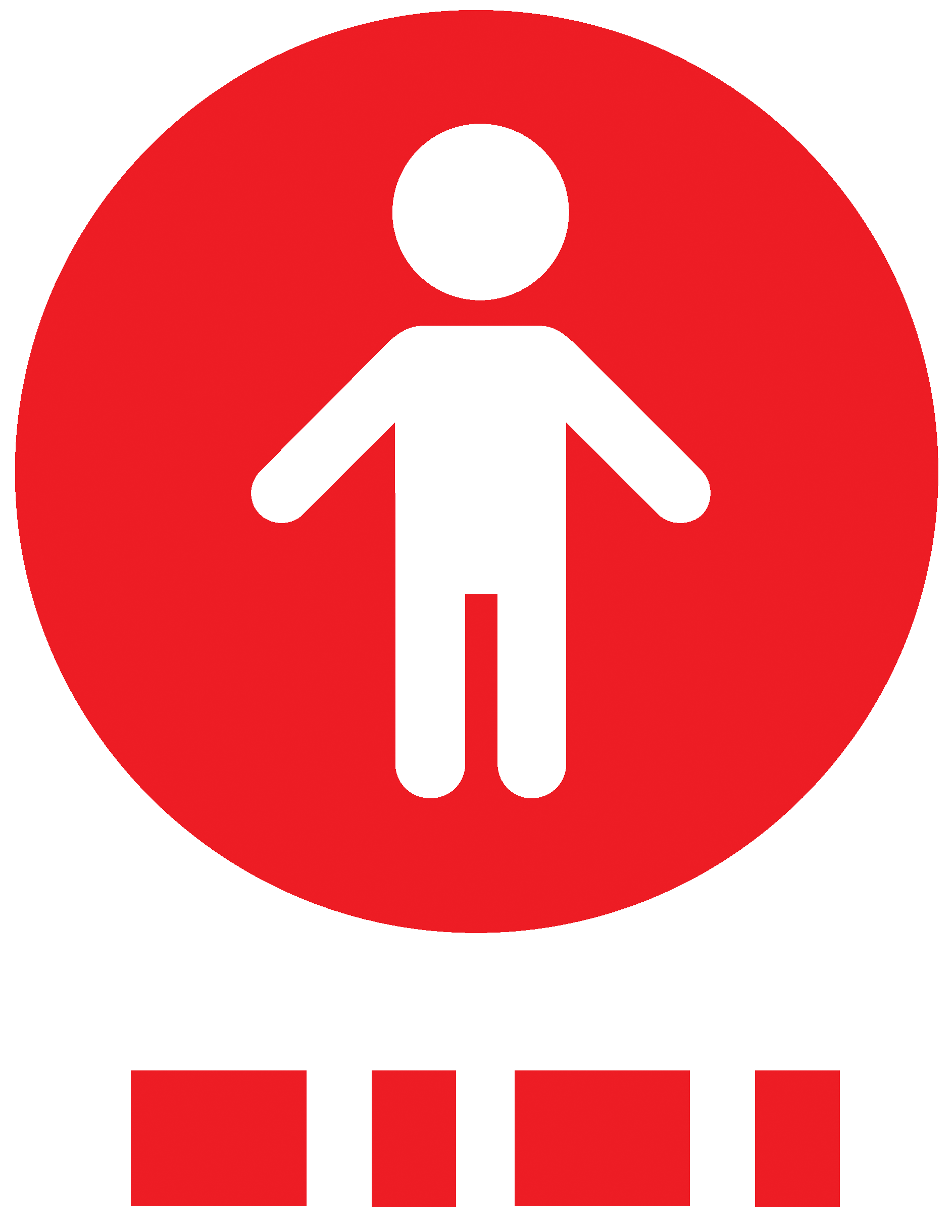 Logo of Social and Cultural Centre MaMa in Zagreb